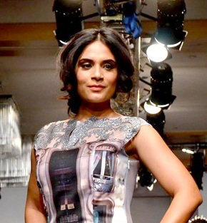 Richa Chadda walks for Sounia Gohil at LFW 2014